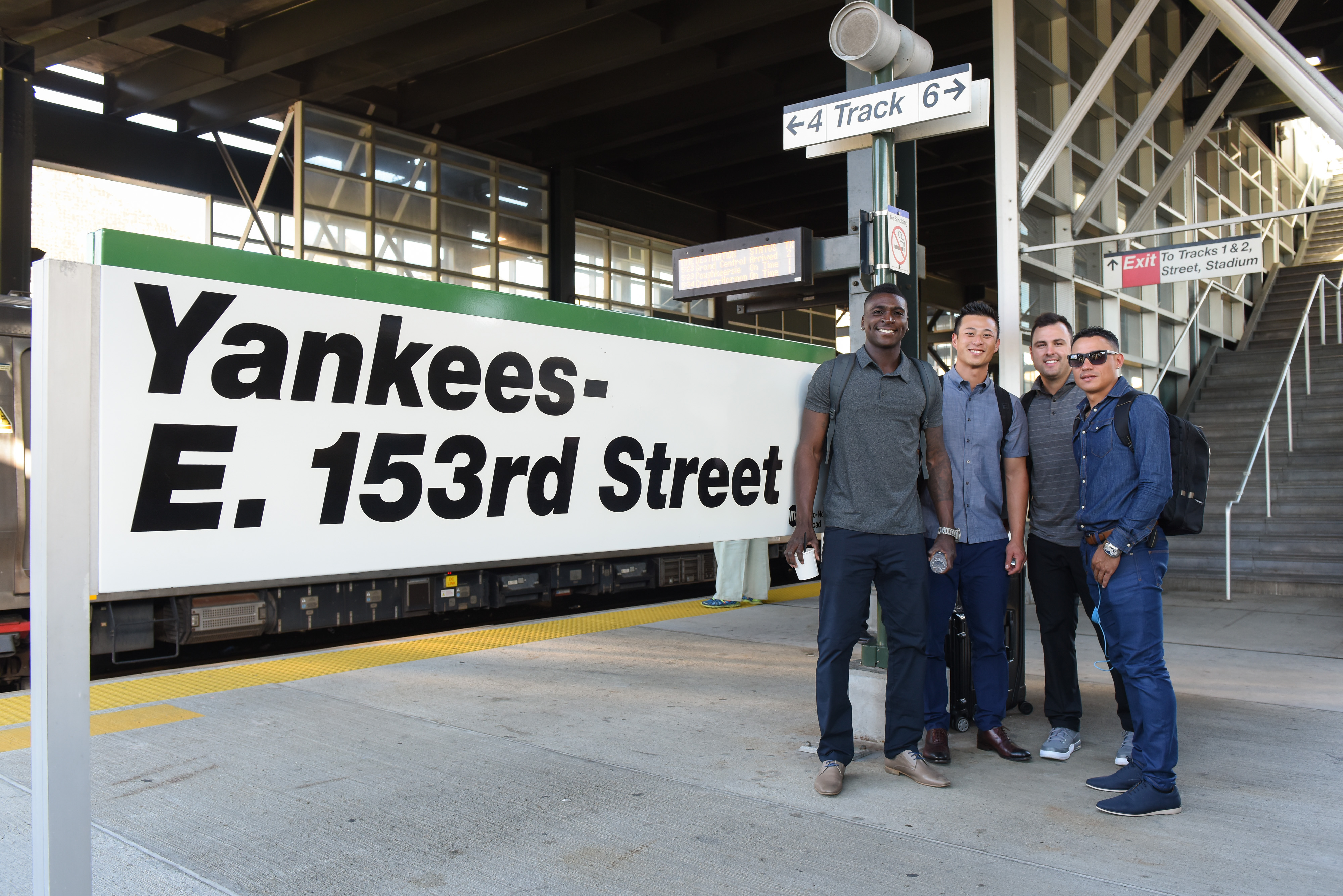 Fresh off of a 3-2 win against the Cleveland Indians, the New York Yankees boarded an Amtrak charter train to Boston at Metro-North Railroad's Yankees-E. 153rd Street station on August 7, 2016. In this photo (left to right): Didi Gregorius, Rob Refsnyder, Nick Goody and Ronald Torreyes. MTA Metro-North Railroad has special service to all Yankees home games, with direct service on the Hudson Line, and easy connections or special direct trains from the Harlem Line and New Haven Line, and shuttle service to and from Grand Central throughout every game. Take the train to the game! Photo credit: New York Yankees/Ron Antonelli